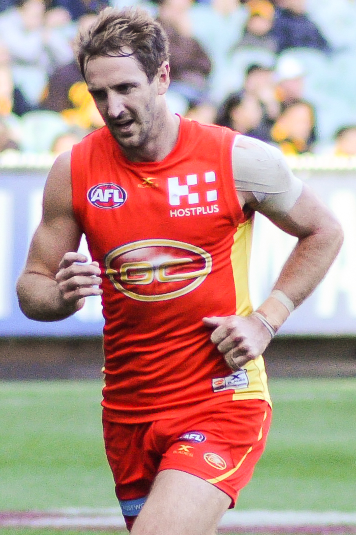 Michael Barlow during the AFL round twelve match between Melbourne and Collingwood on 10 June 2017 at the Melbourne Cricket Ground in Melbourne, Victoria.